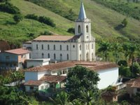 Village center